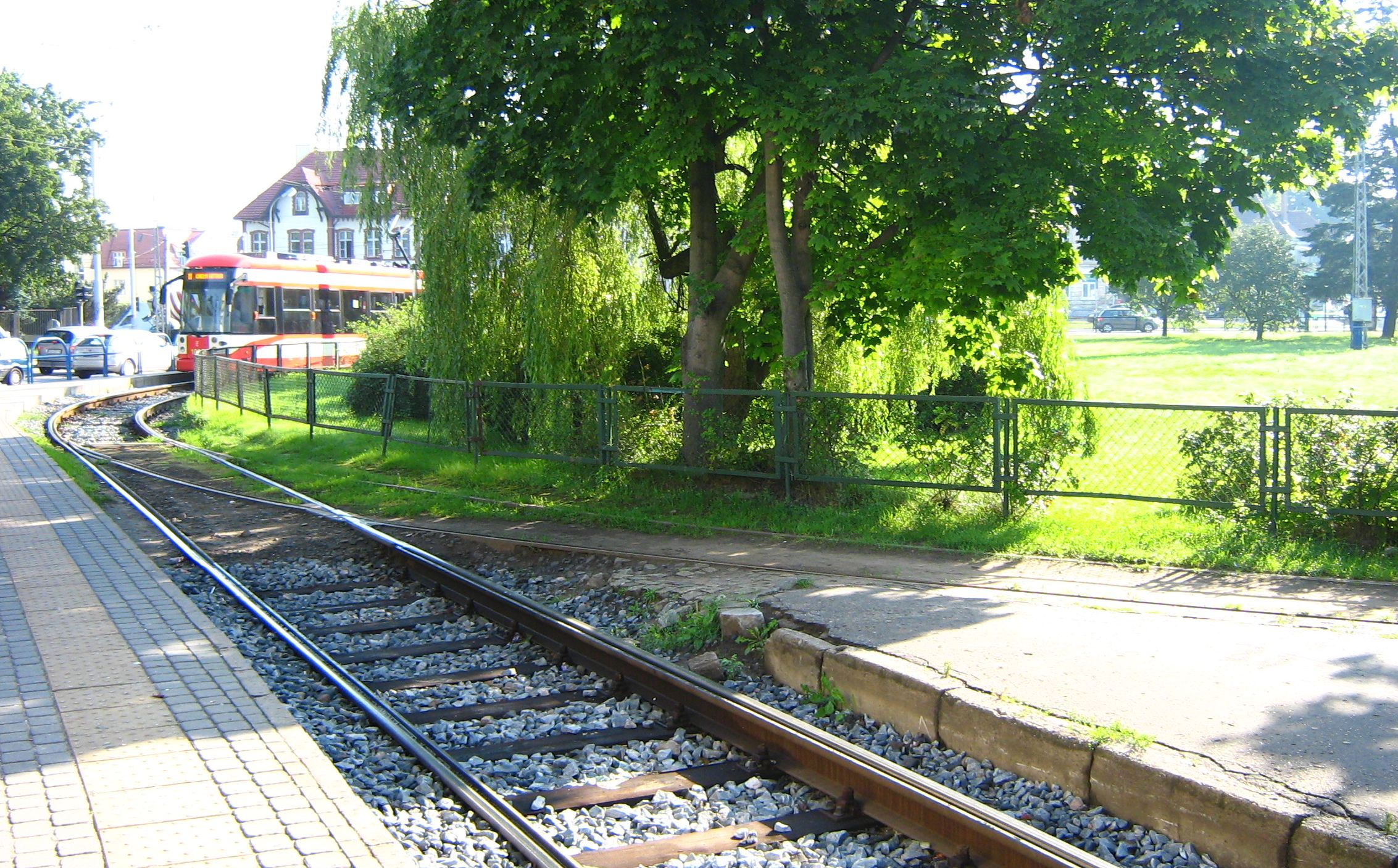 Tram track loop in Gdańsk-Oliwa